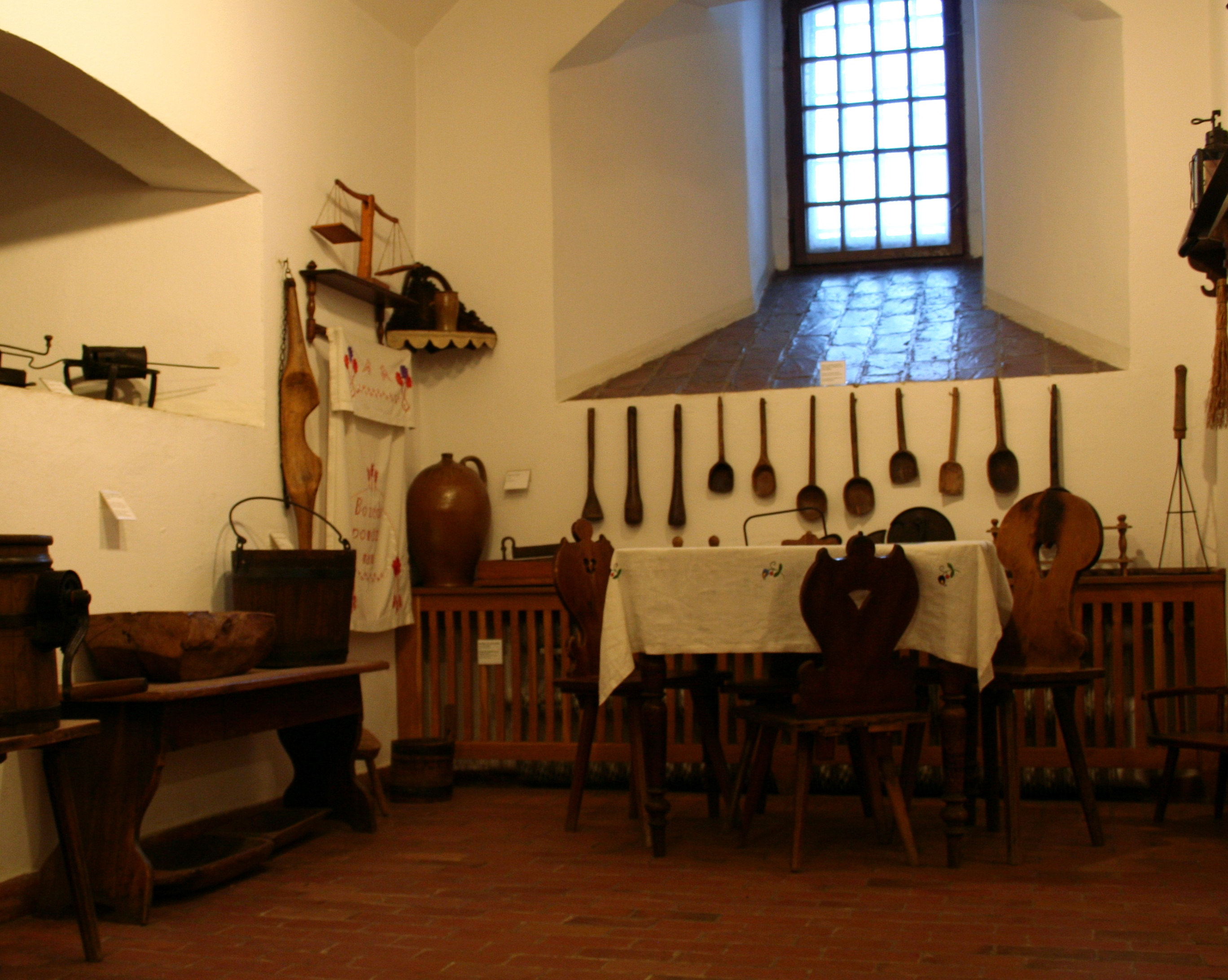 The exposition in the museum in Bytów, Poland.